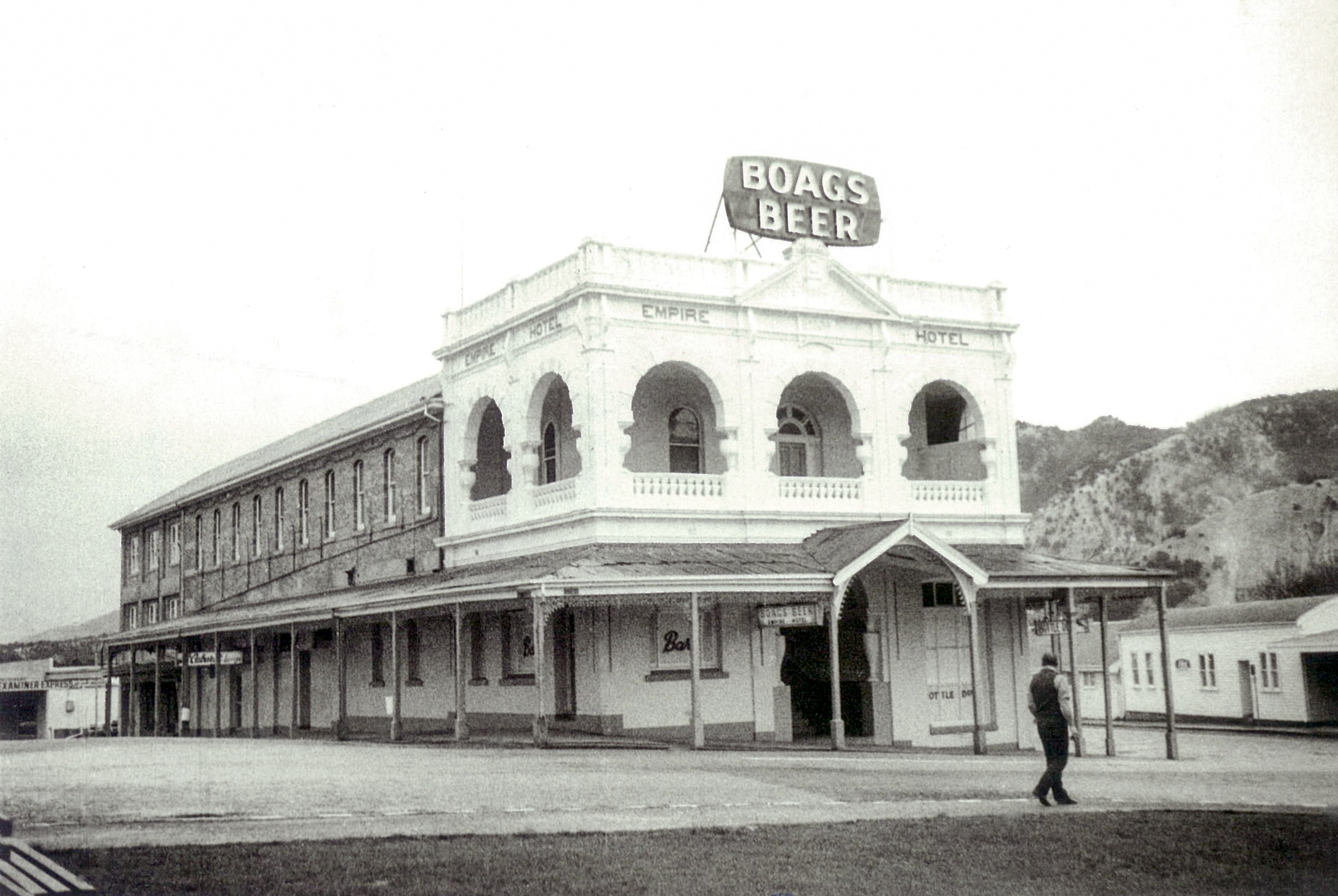 Empire Hotel-Queenstown, Tasmania built by Parer & Higgins, with the first licensee Michael Parer 1901